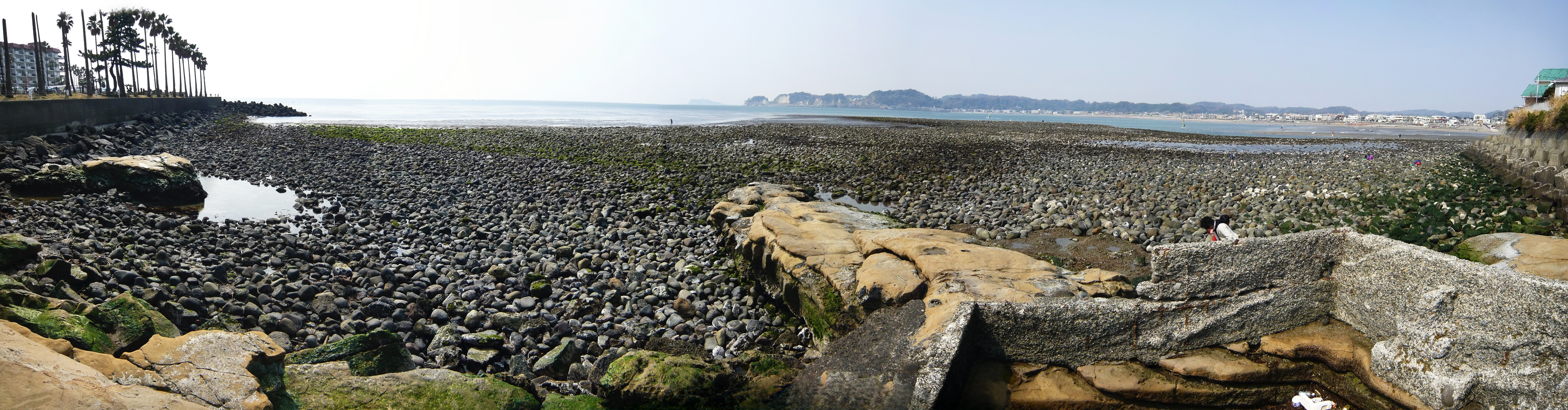 The artificial harbor island of Wakaejima at Zaimokuza, Kamakura, exposed by an exceptionally low tide